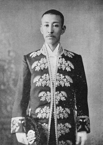 Sumiaki Arima